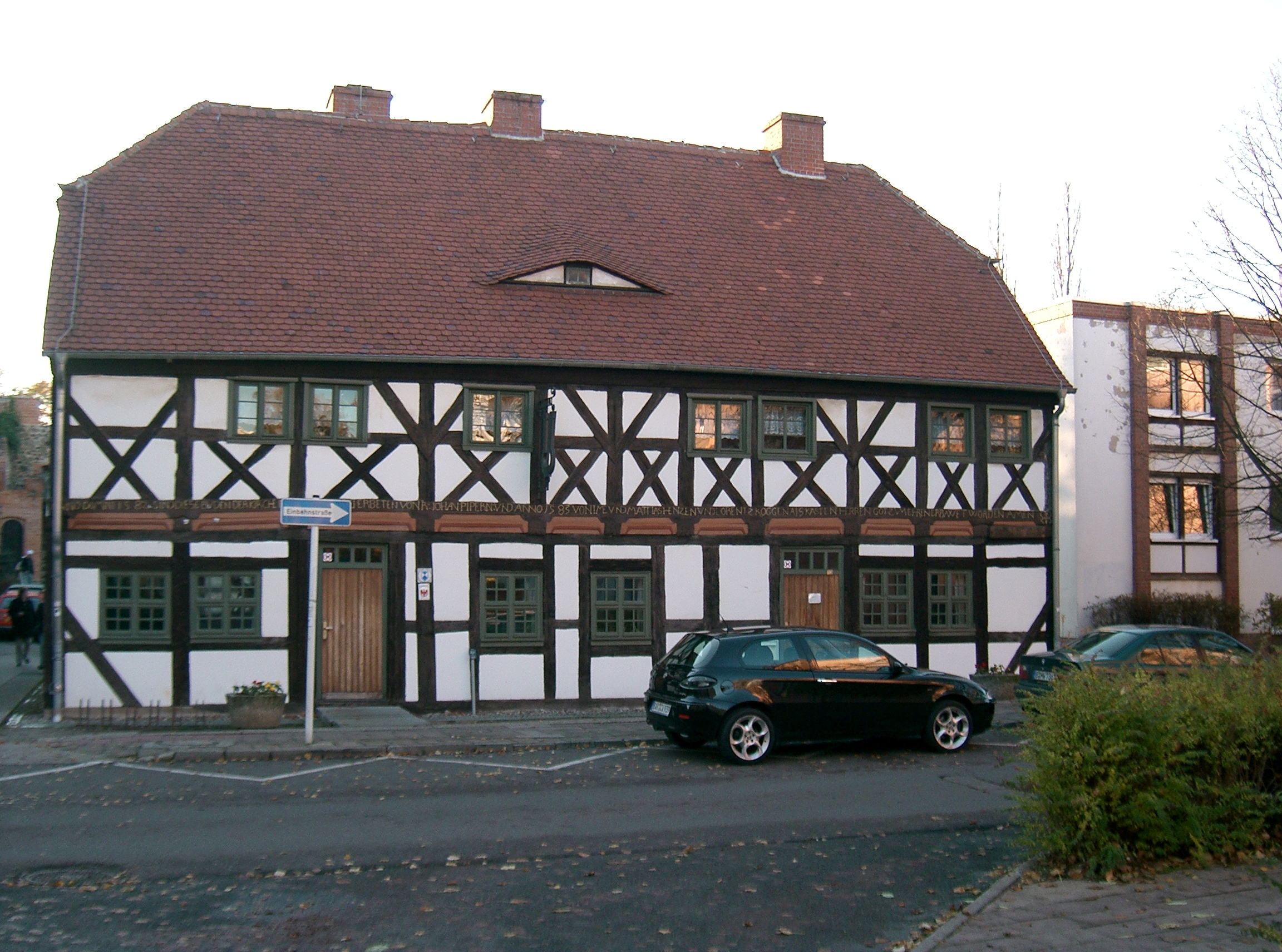 The house of the cantor in the Tuchmacherstaße of the german city Bernau bei Berlin.